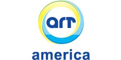 logo ART america